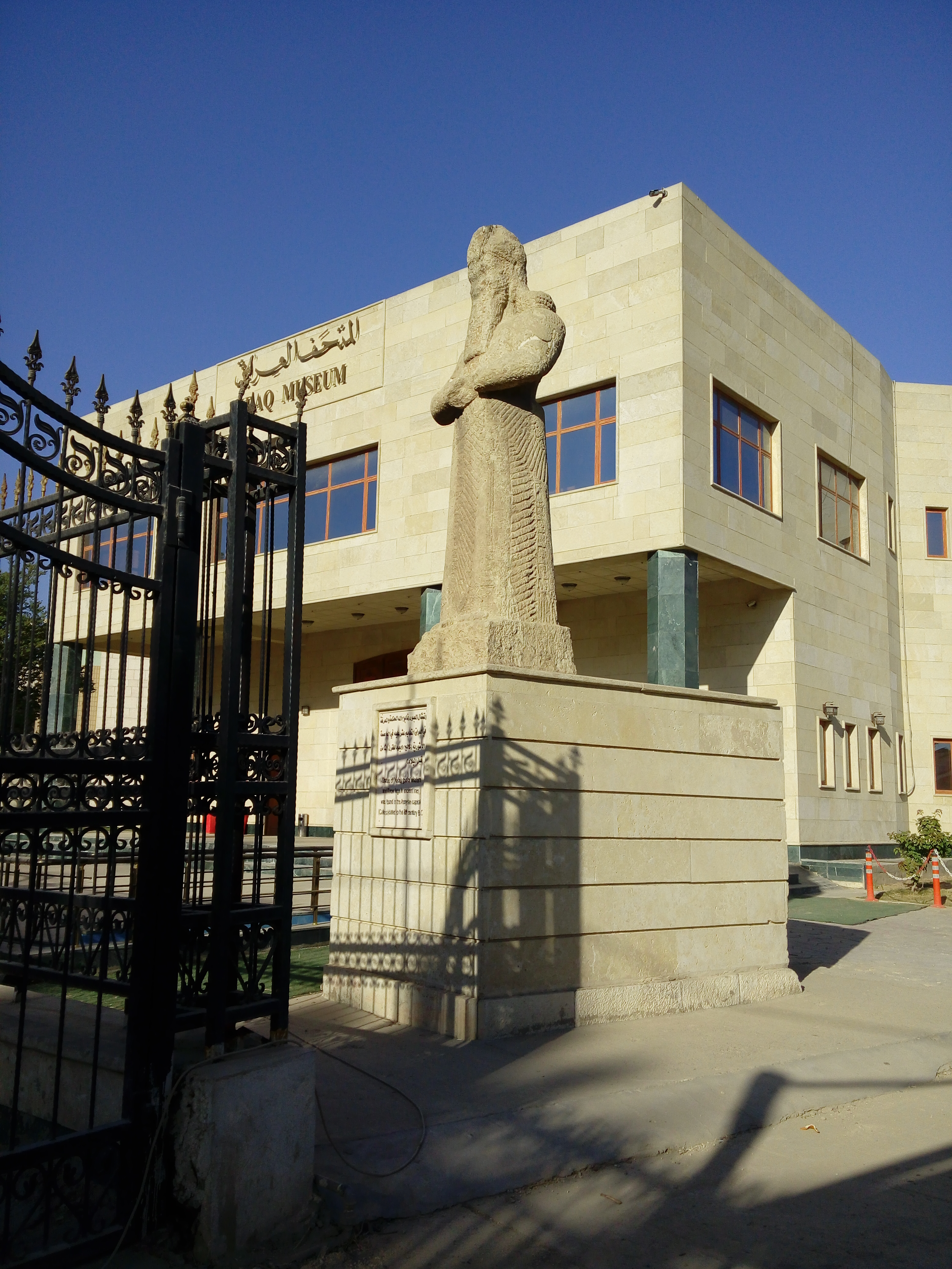 Statue of Nabu god of wisdom and know lege in ancient iraq, was found in the assyrian capital calkho dated to the 8 century b.c.